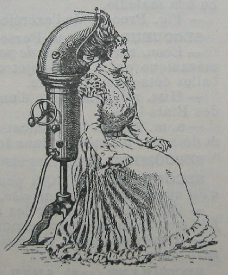 From 1900 Encyclopedie Larousse Illustree, originally uploaded by user:PHG(Image:HairDryer.jpg.